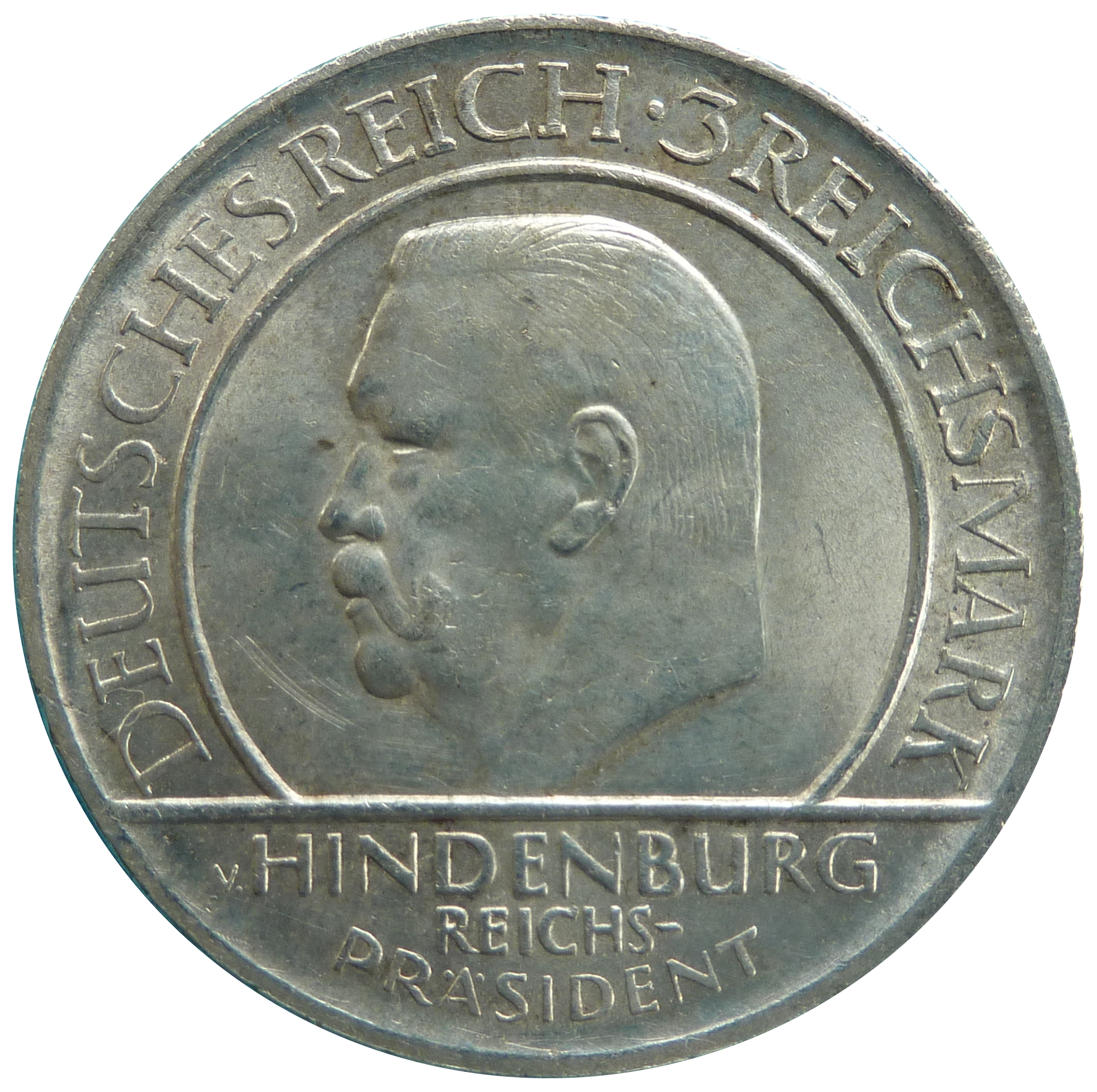 Averse of the commemorative coin "10th anniversary of the Weimar Constitution" of the Weimar Republic